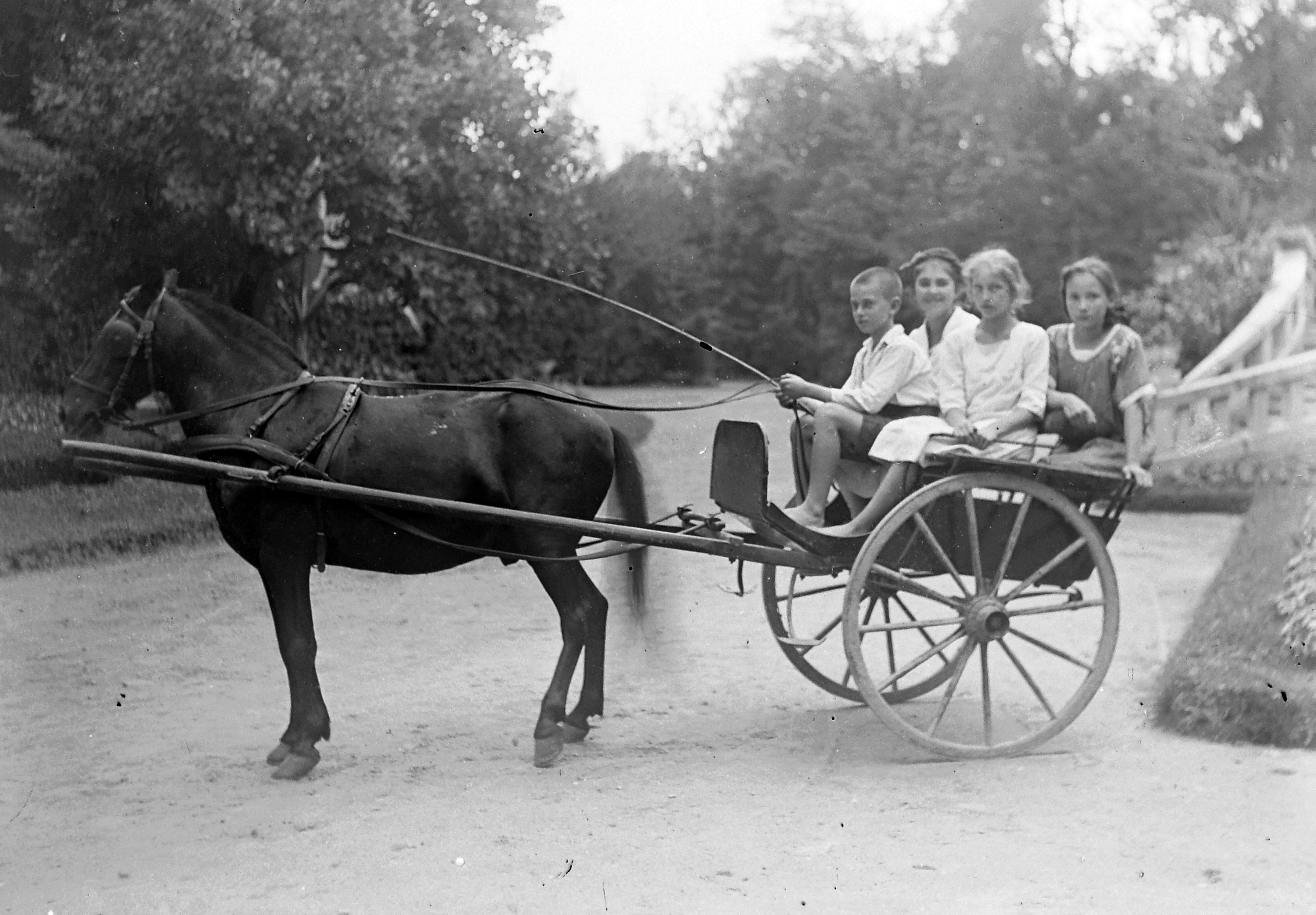 Tags: tableau, boy, girls, horse, coach